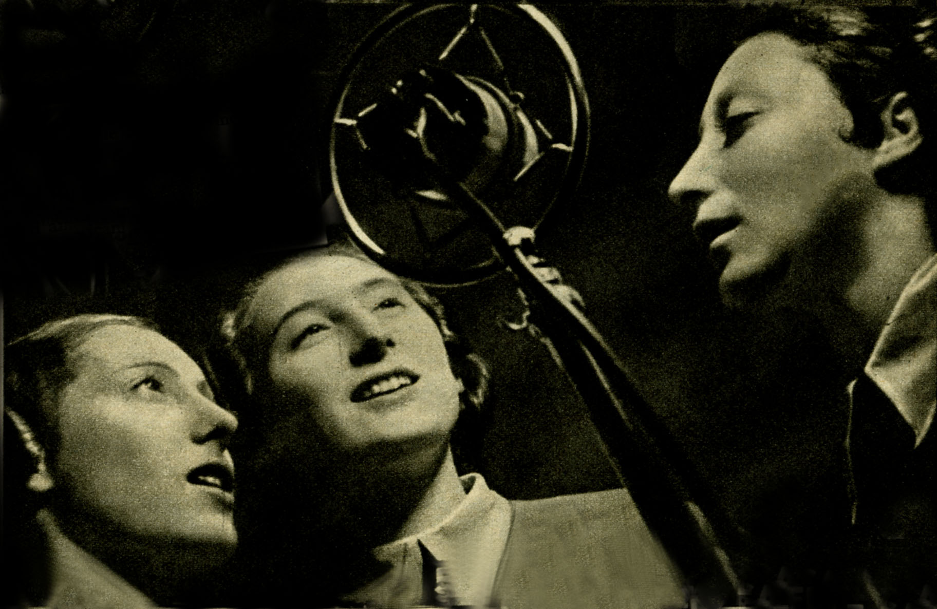 photo from Excelsior n° 17/1938